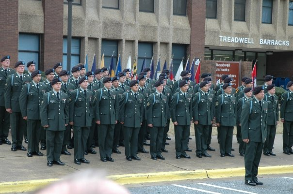 Turning Blue Ceremony at Treadwell Barracks, Sand Hill, Fort Benning, GA